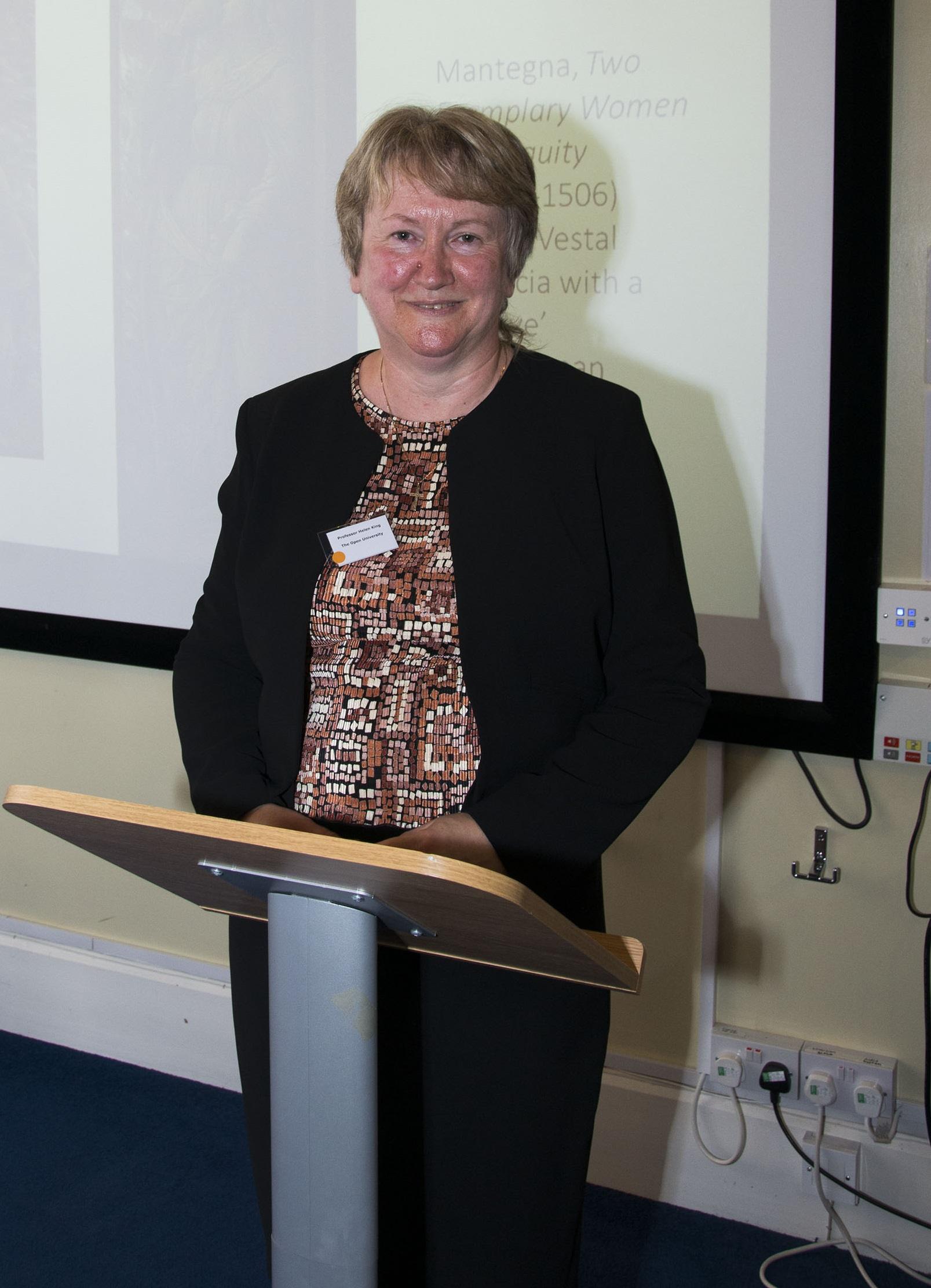 Helen King giving a keynote presentation at 'Bodily Fluids, Fluid Bodies in Greek and Roman Antiquity', Cardiff University, 2016